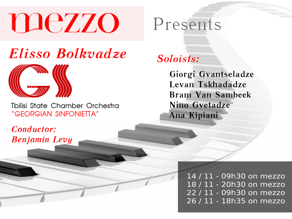 Mezzo in Georgia